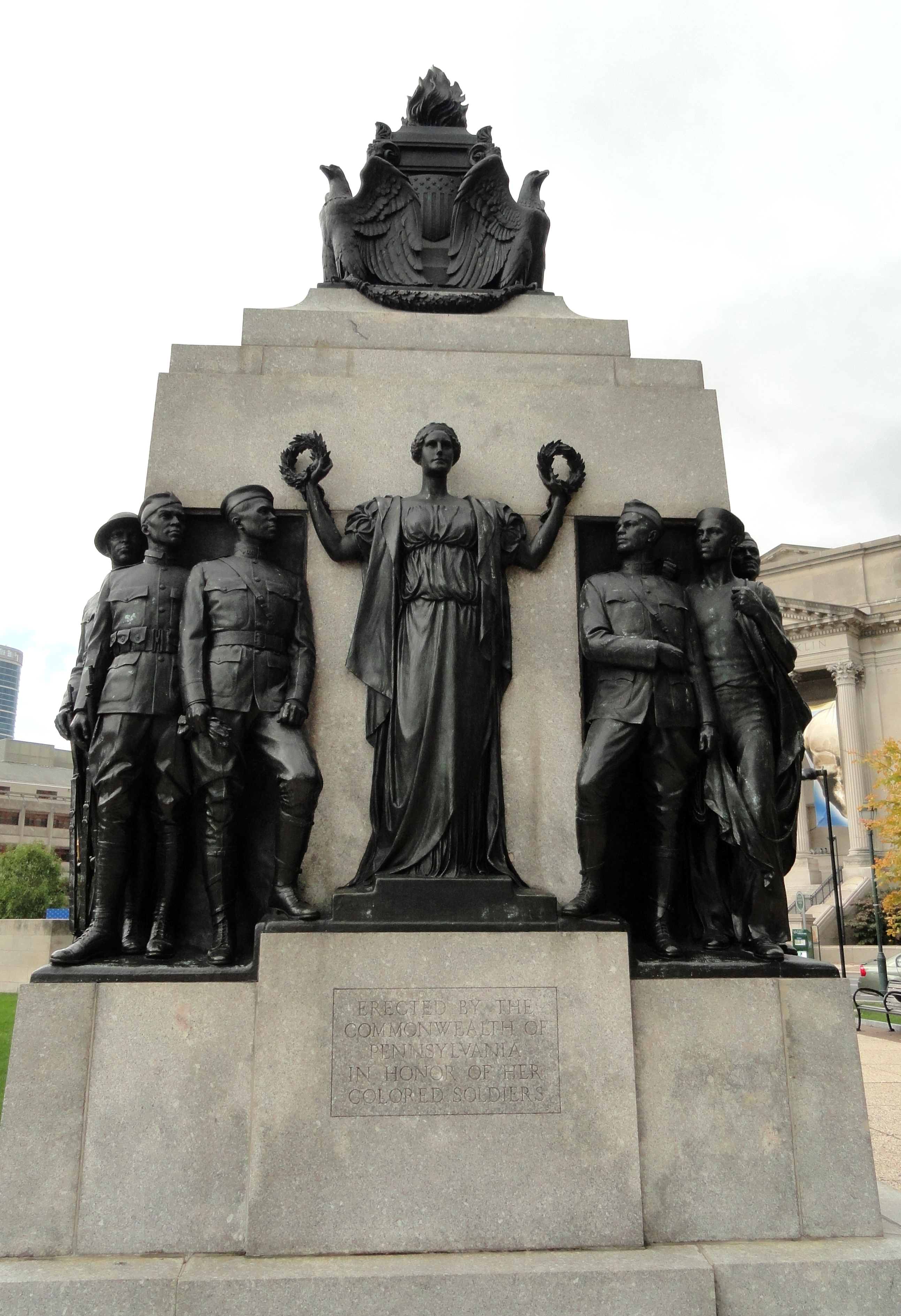 All Wars Memorial to Colored Soldiers and Sailors, sculpted by J. Otto Schweizer, 1934. Currently located on Landsdowne Drive near Memorial Hall (West side of Fairmount Park), Philadelphia, Pennsylvania, USA. Smithsonian American Art Museum's Art Inventories Catalog: Control number PA000002 (dcMem ID #6568 ) .